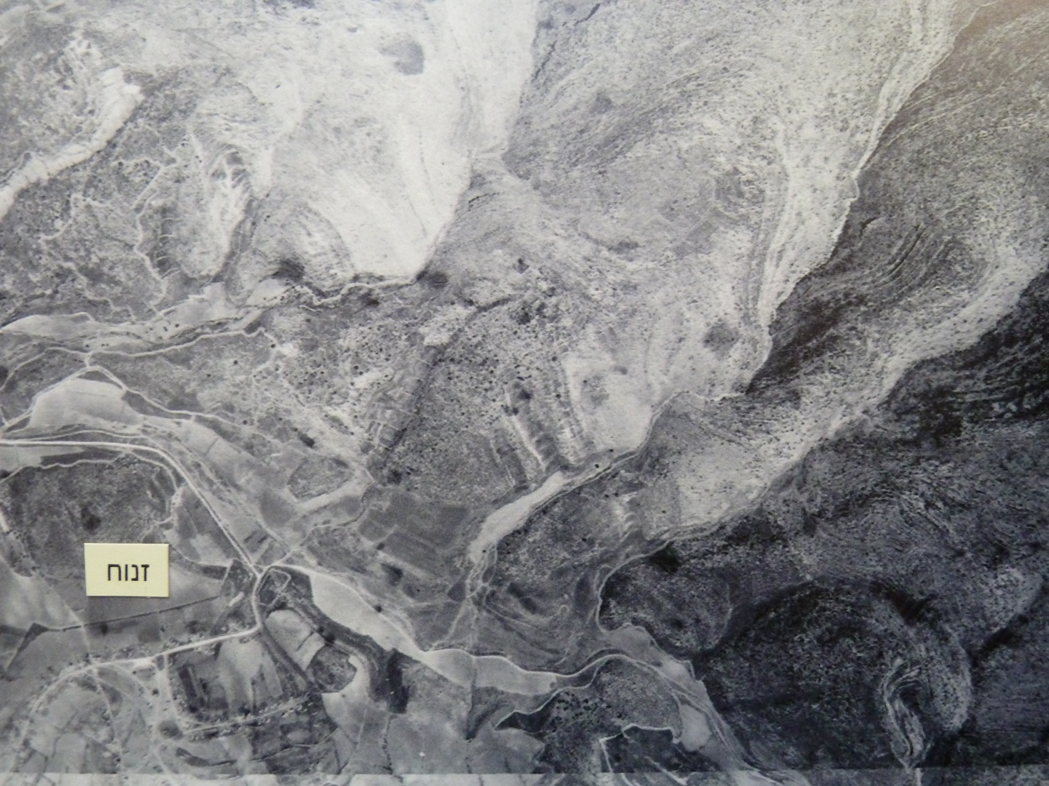 Aerial photographs of the Judean Hills, 1956